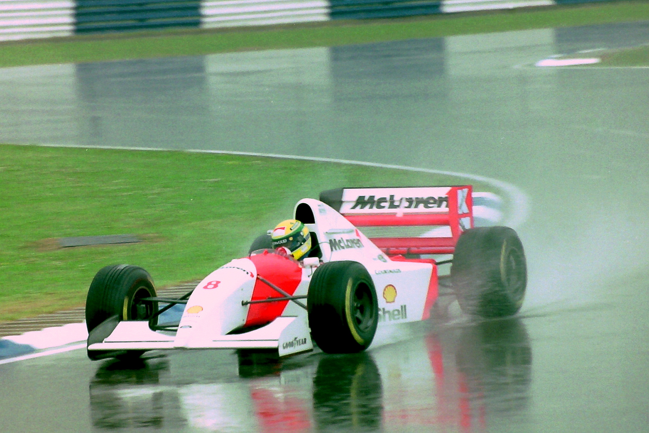 Ayrton Senna - Mclaren MP4-8 during practice for the 1993 British Grand Prix